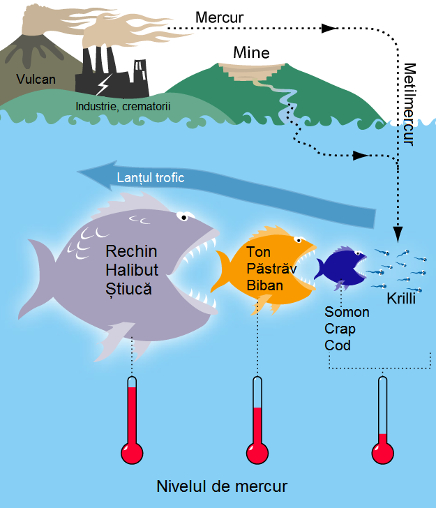 This figure shows some common sources of mercury, the conversion to toxic methylmercury and the outline of EPA consumption recommendations for certain types of fish based on mercury levels. The original caption stated: "Mercury from coal fired power plants and other sources travels through the atmosphere and water. Some is changed to methylmercury, which can enter the food chain to be concentrated at each step on that chain. Large old predators like sharks and pike, or scavengers like halibut, hold the greatest concentrations of mercury. The mercury is particularly problematic during development, so these limits here are designed to protect women who might become pregnant and children 12 or younger."